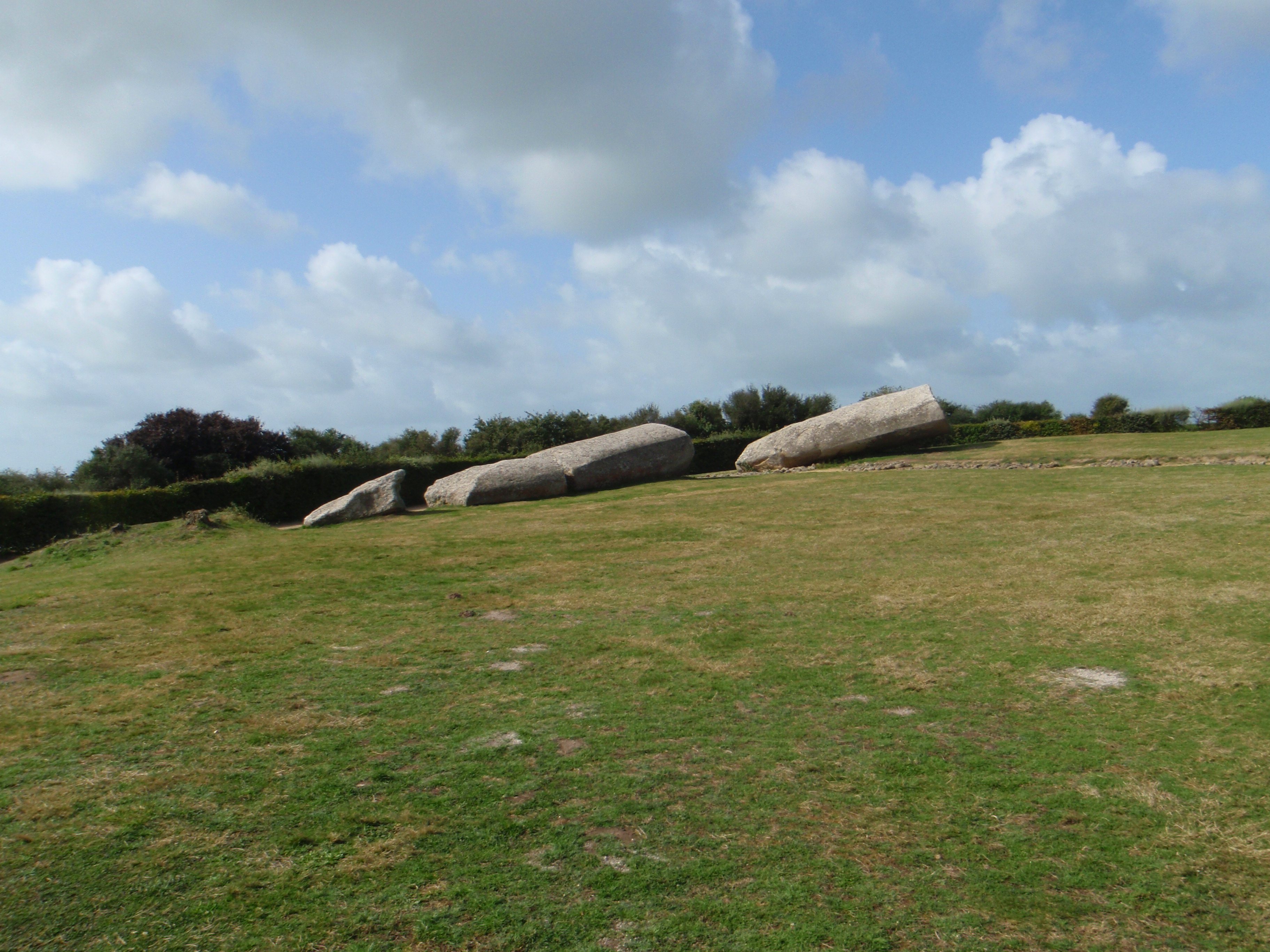 The broken menhir of Locmariaquer Brittany